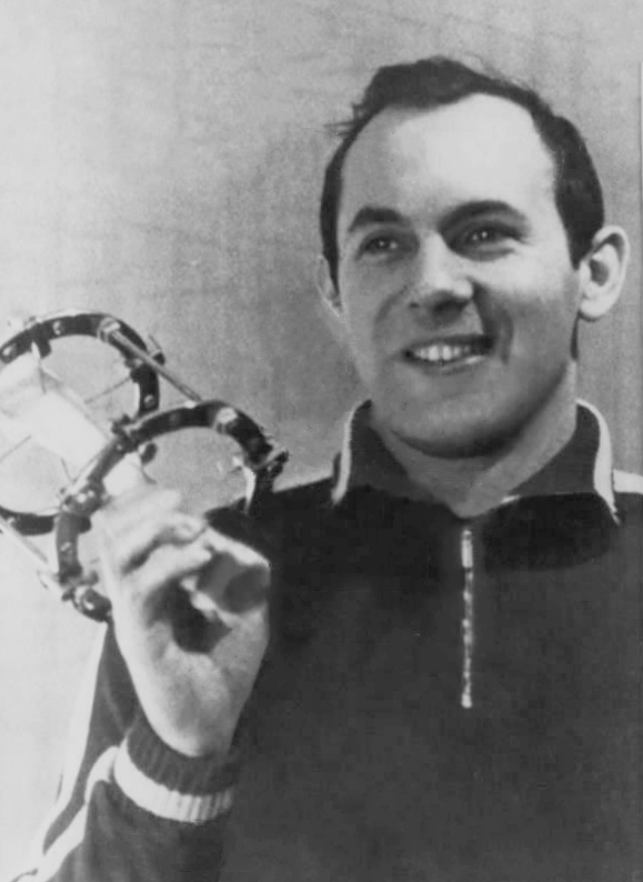 1968 Press Photo Valery Brumel shows device that restores size of crushed leg